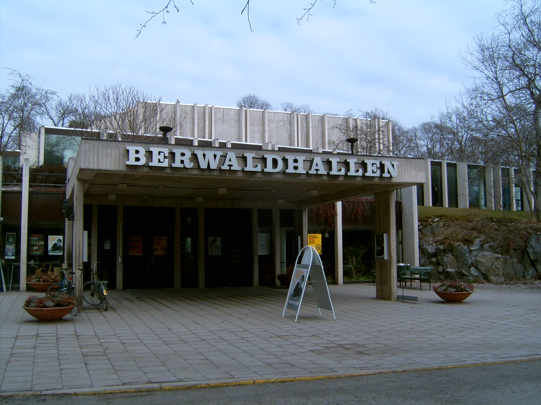 Entrence of Berwaldhallen by Dag Hammarskjölds väg at Östermalm in Stockholm.